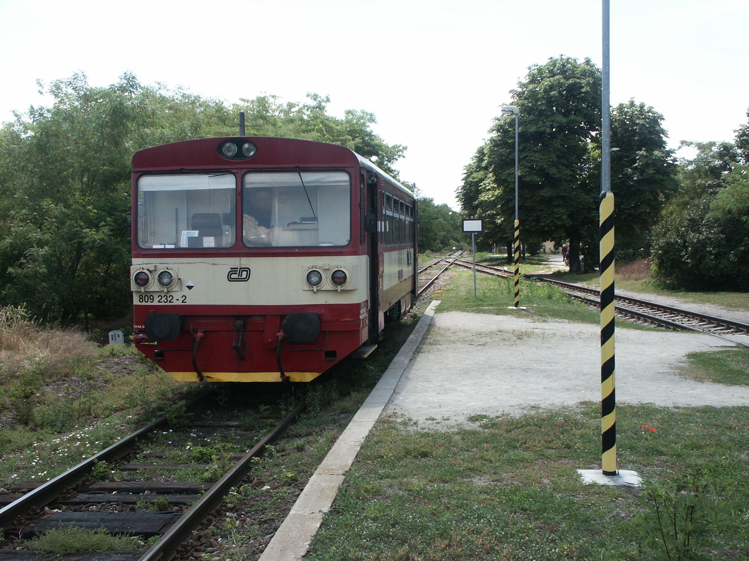 Train no. 24513 (railcar 809) waiting for depature in railway station Hevlín.